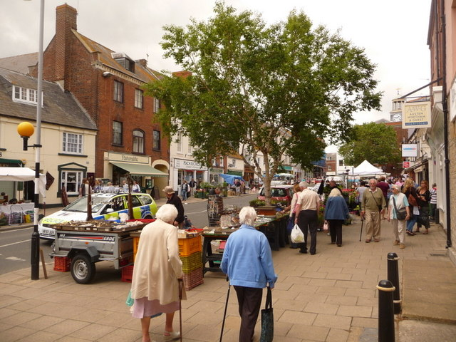 Bridport: Saturday market in South Street The market on Saturdays lines both sides of East, West and South Streets. With shopfronts to browse at on one side and stalls on the other, pedestrians often progress at a very slow pace along the restricted width of the pavements, causing almost as much congestion as occurs to traffic on the carriageways. The clock tower of the Town Hall can just be seen top-right of picture.